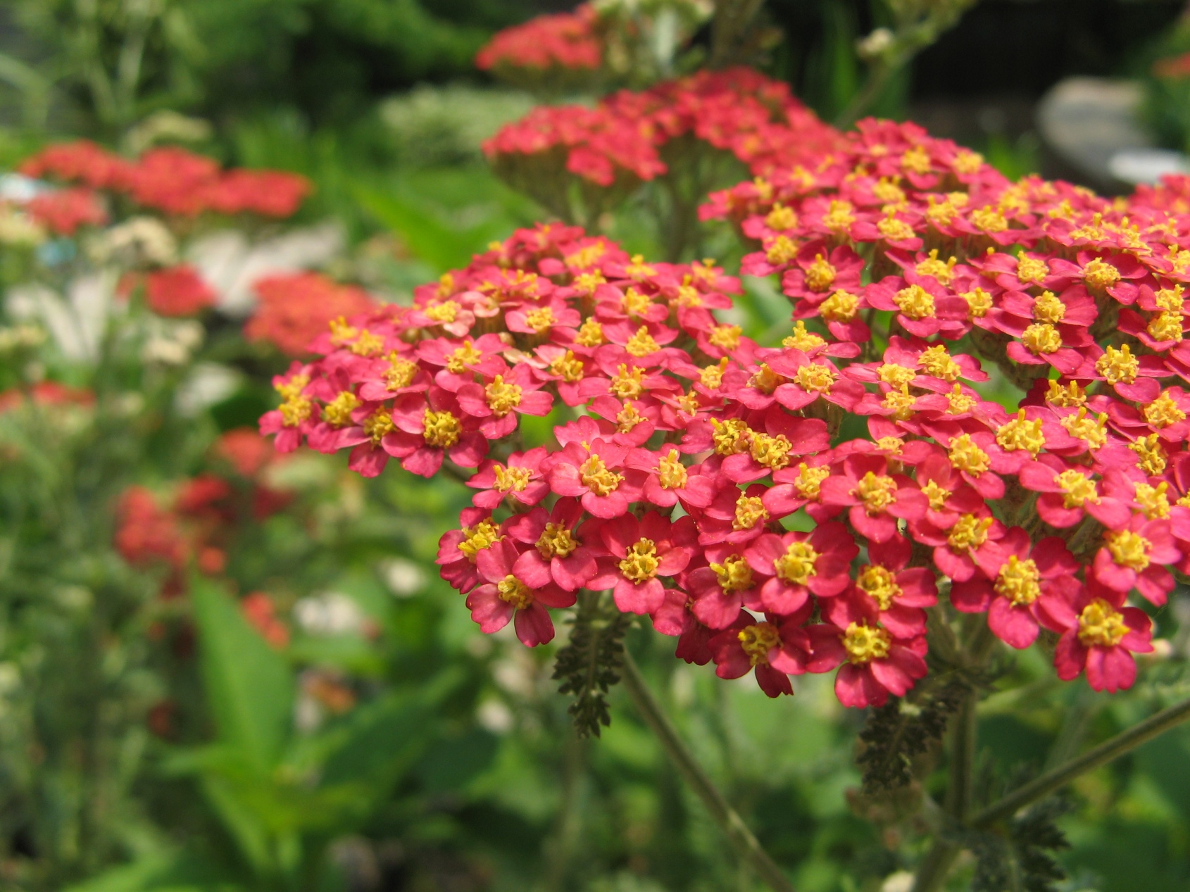 Unidentified variety of red yarrow. June 2006.